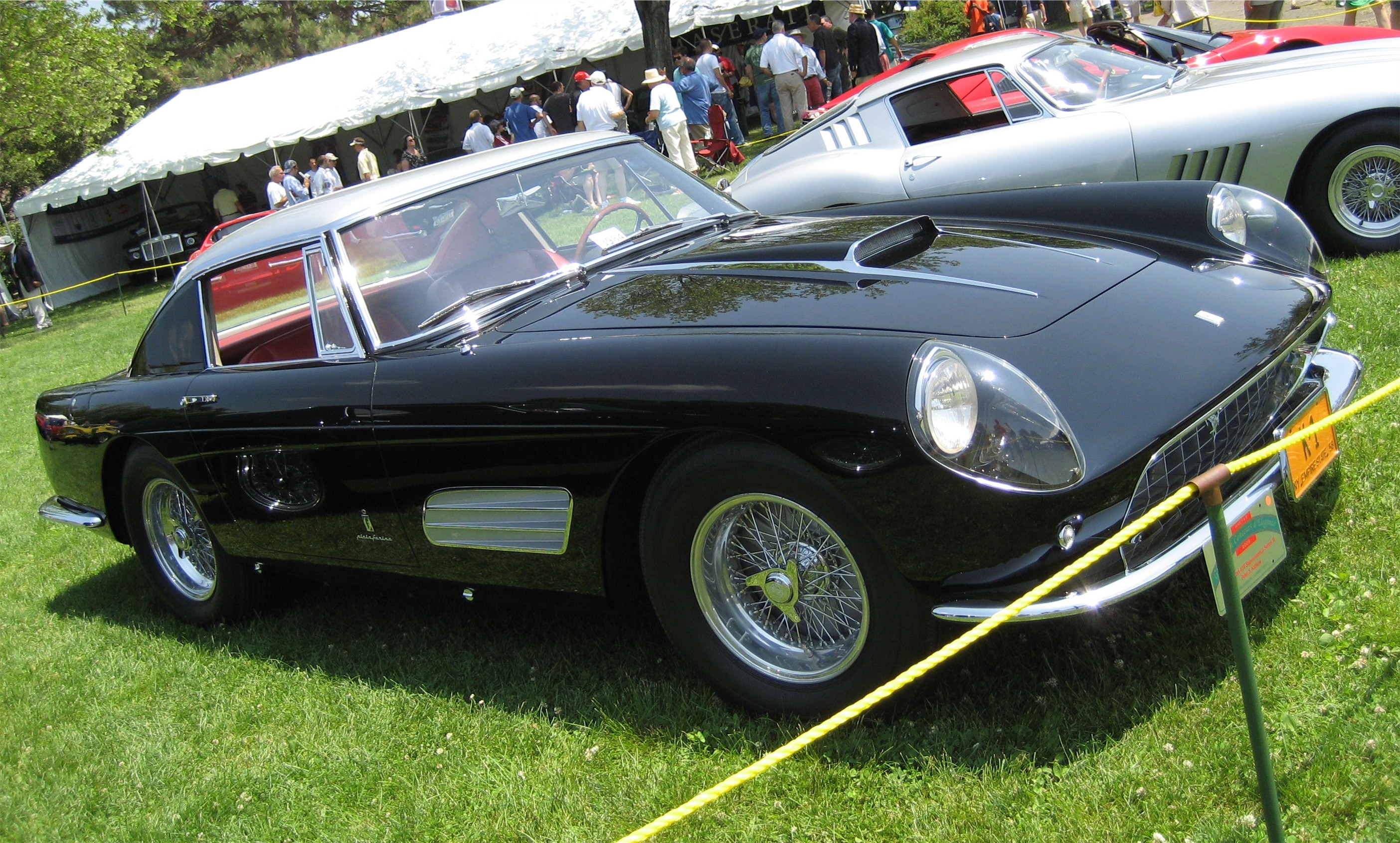 1959 Ferrari 410 Superamerica Series III coupe, serial number 1449SA, sold new to USA.[1] This photograph is from the 2008 Greenwich Concours d'Elegance in Greenwich, Connecticut.